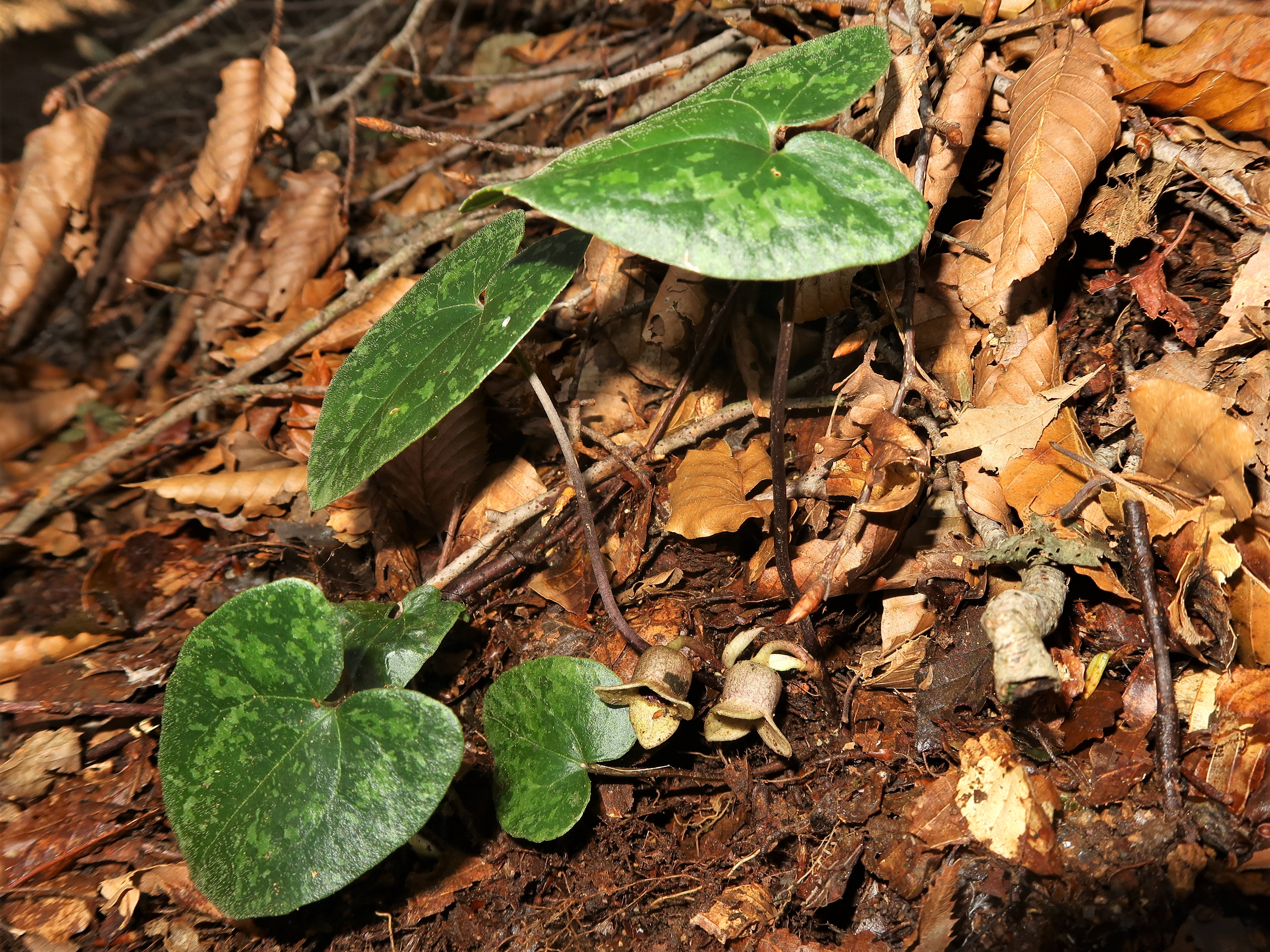 Asarum savatieri, Mount Amagi-san, Shizuoka pref., Japan